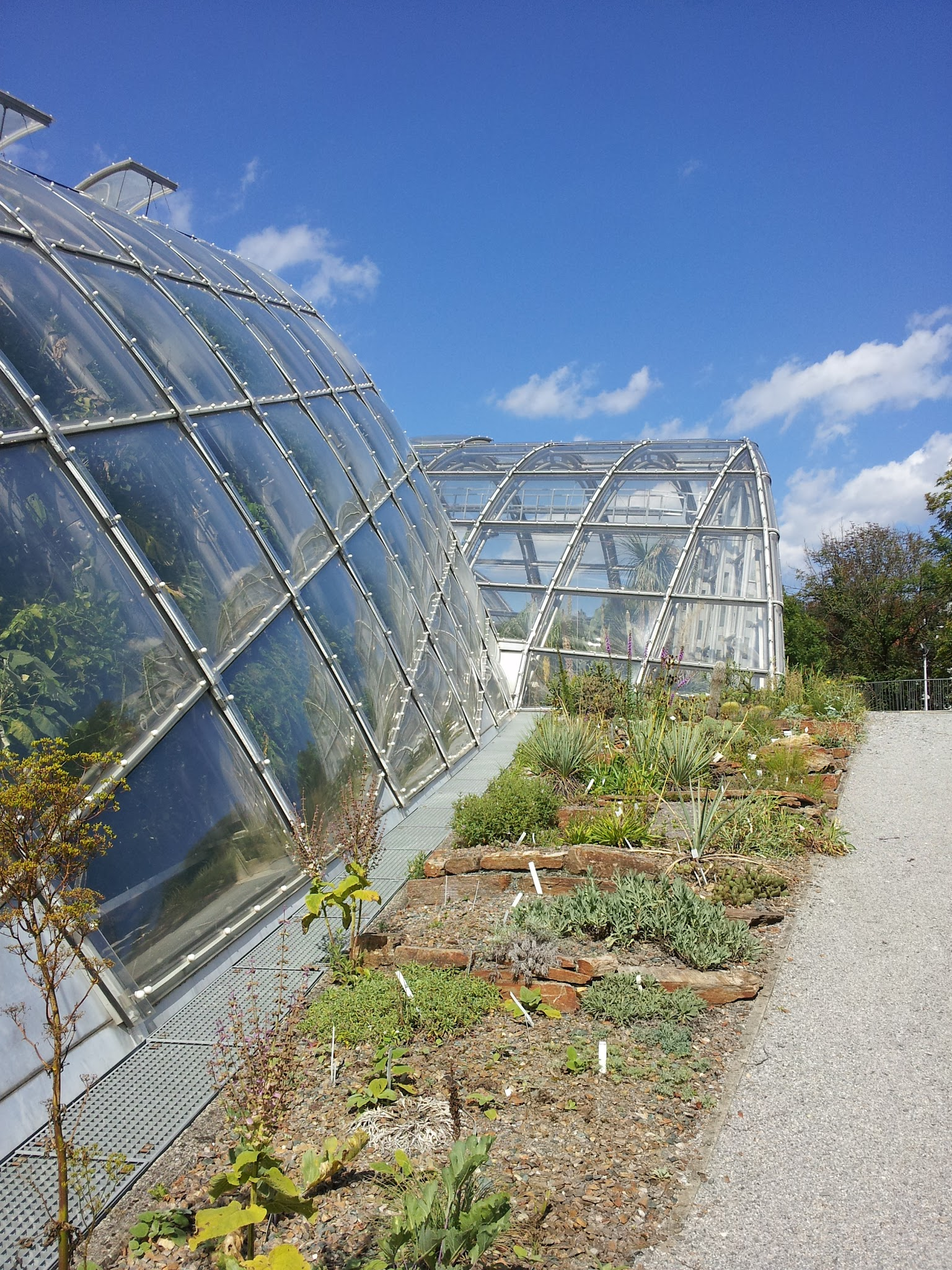 Modern Greenhouse of the Graz Botanical Garden, Austria.